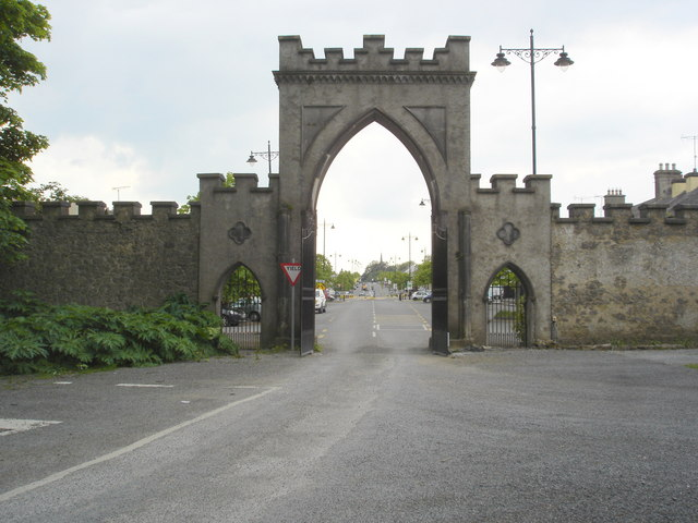 Exit from Strokestown Park The exit gates from Strokestown Park House into the village of the same name.